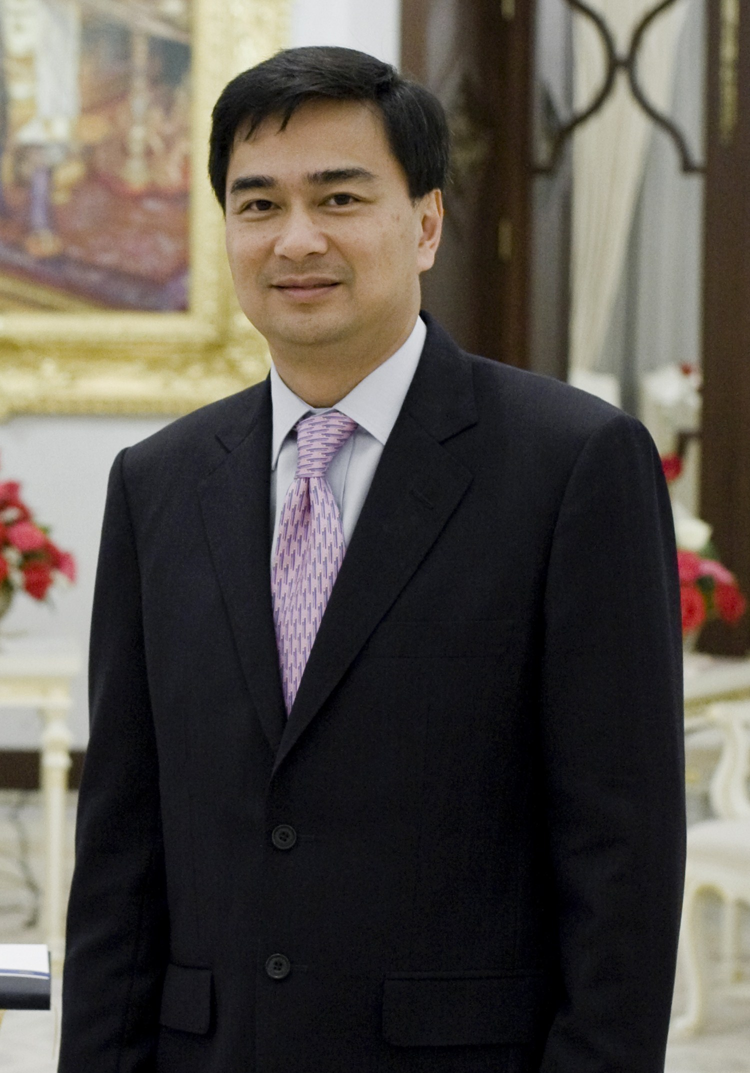 ผู้แทนพระองค์ในสมเด็จพระเจ้าลูกเธอ เจ้าฟ้าจุฬาภรณ์วลัยลักษณ์ อัครราชกุมารี เข้ามอบของอวยพรปีใหม่ ณ ห้องสีงาช้าง 11 มกราคม2553 (The Official Site of The Prime Minister of Thailand Photo by พีรพัฒน์ วิมลรังครัตน์)